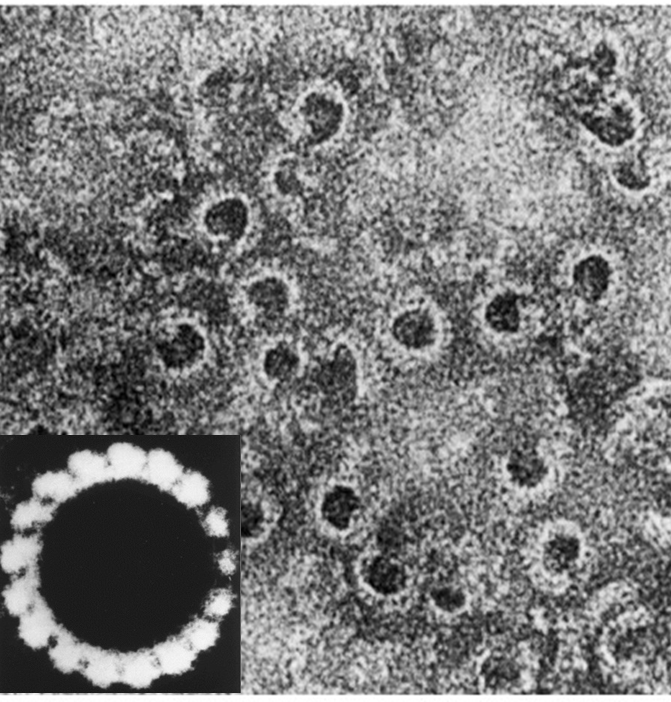 MAC under the e-mic